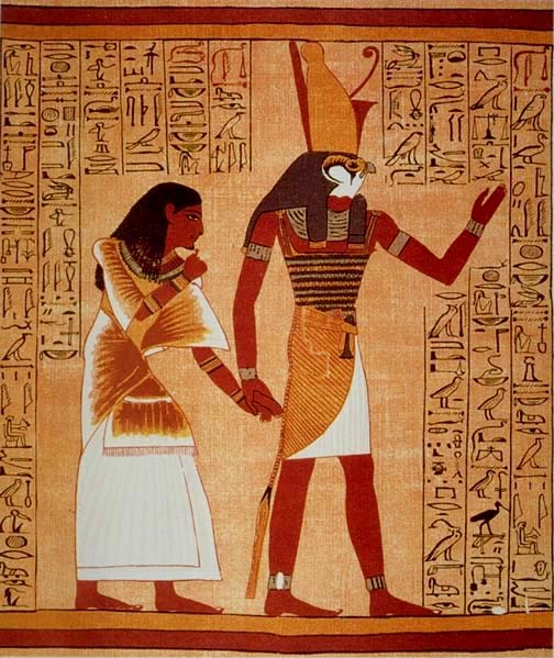 Egyptian God Horus